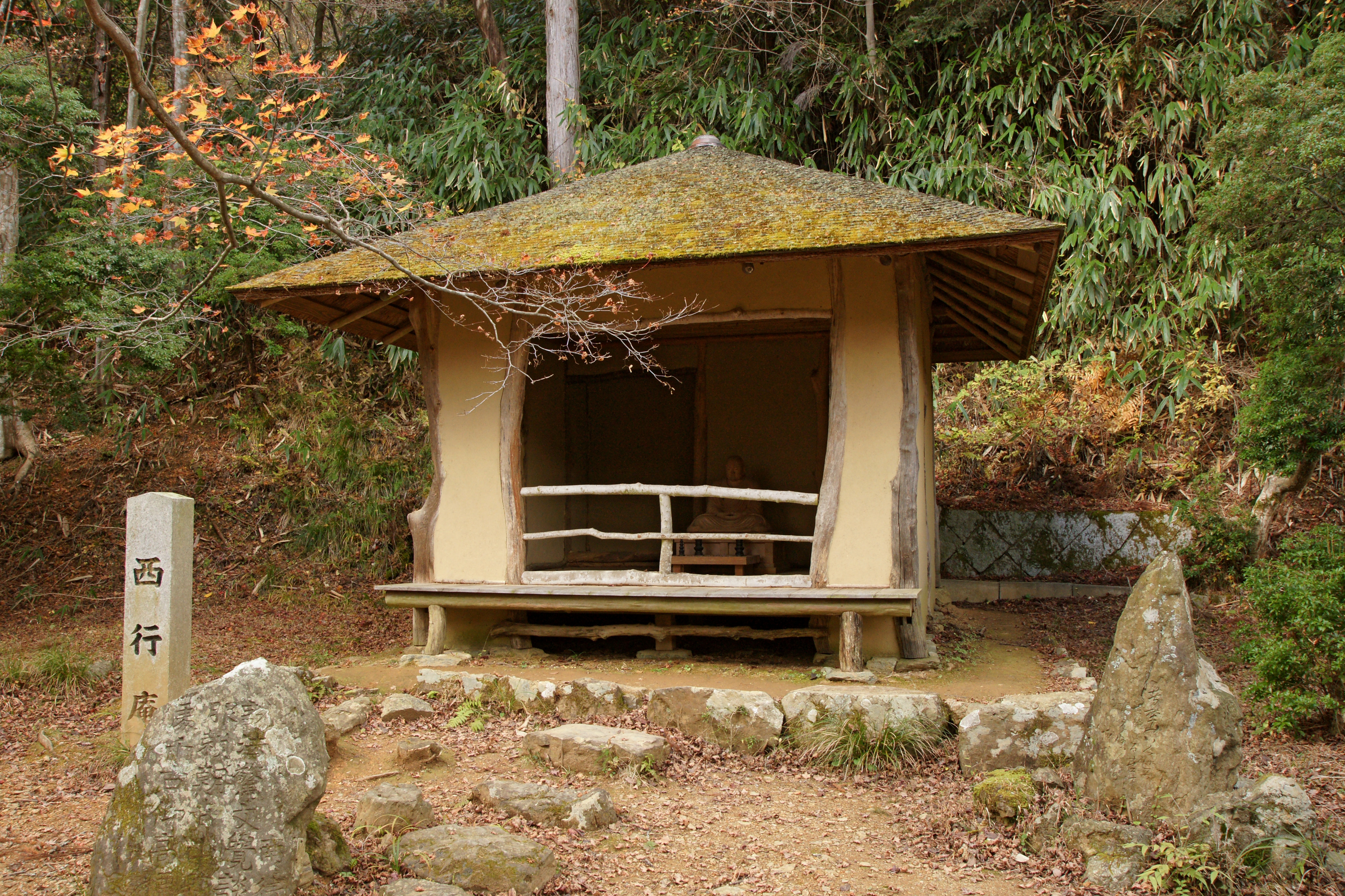 Saigyo-an in Yoshino, Nara prefecture, Japan